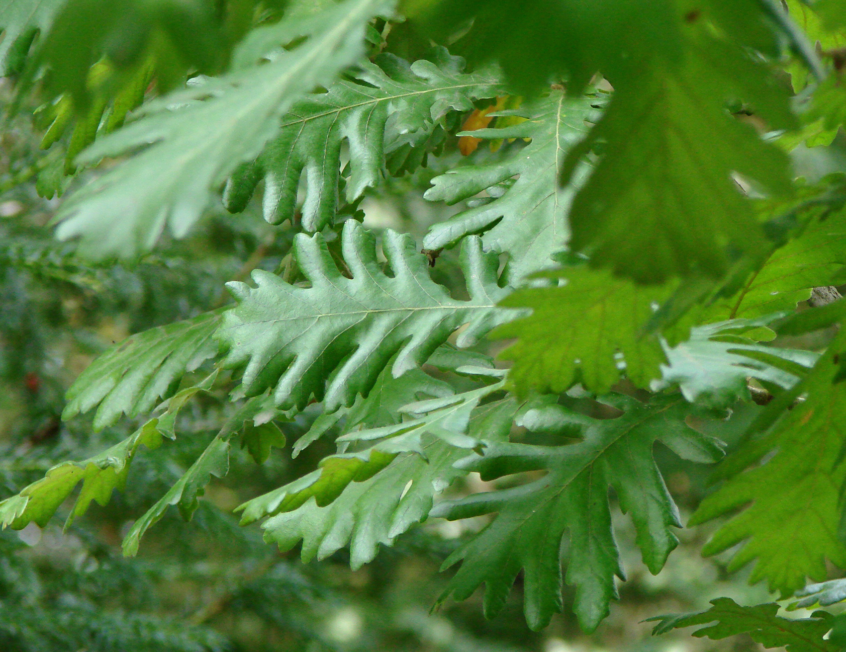 Leaves of a Hungarian Oak (Quercus frainetto). Amiens Zoo.